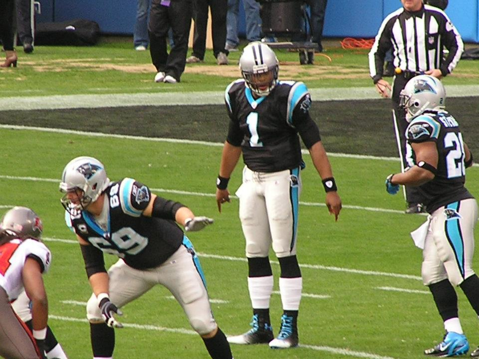 Cam Newton calling a play against the Tampa Bay Bucs